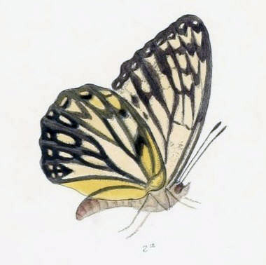 Parhestina Nicevillei